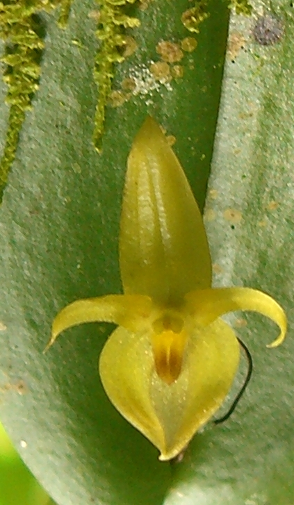 Please report references to .